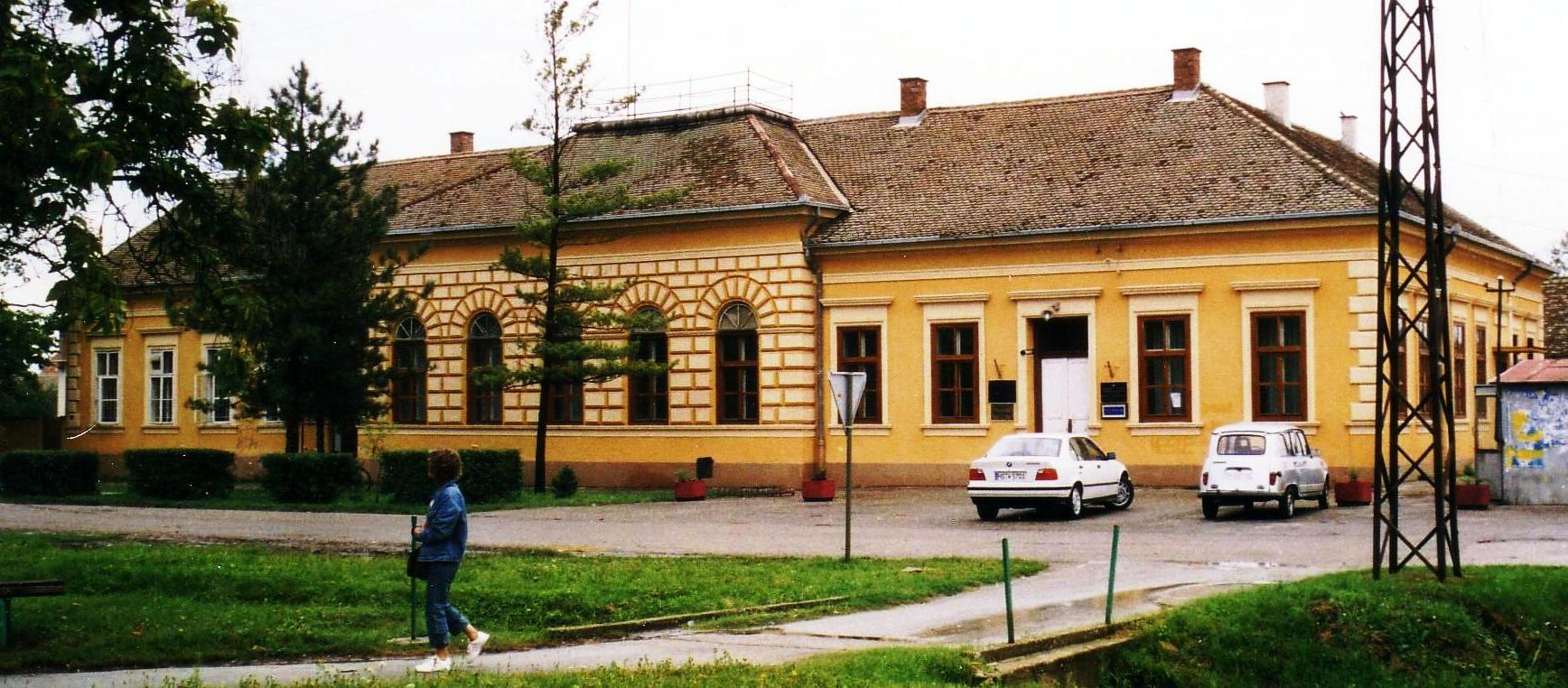 City Hall in Jabuka near Pančevo, Vojvodina Serbia